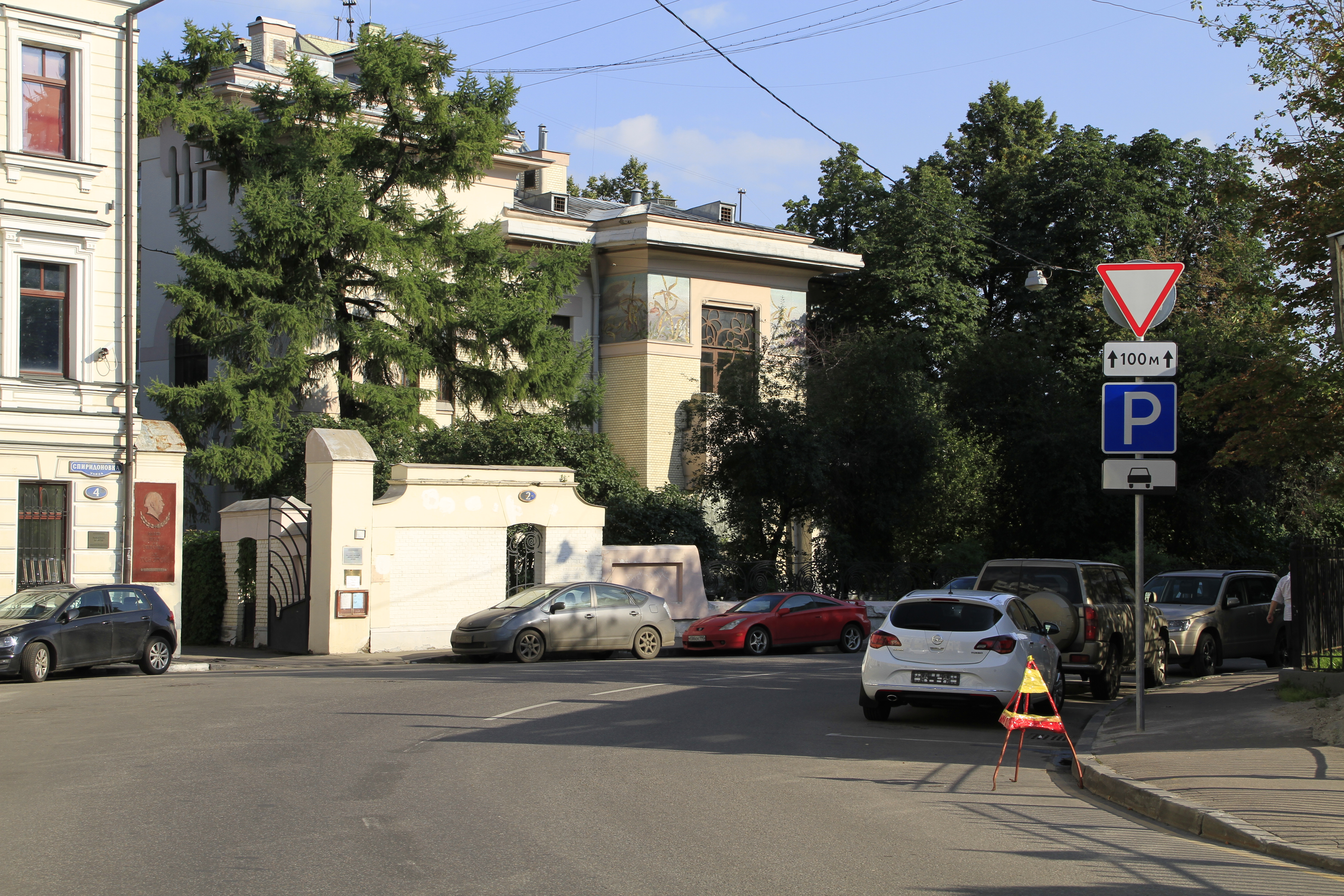 House of S.P. Ryabushinsky